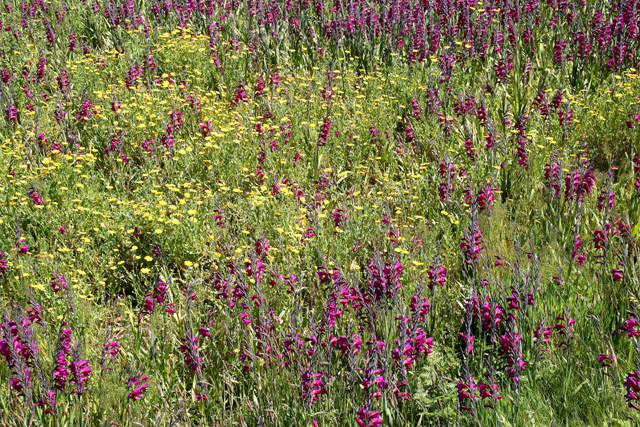 Untended Flower Field. The purple flowers are a species of Gladioli known colloquially as Whistling Jacks, formerly grown commercially. I don't know what the yellow weed is.